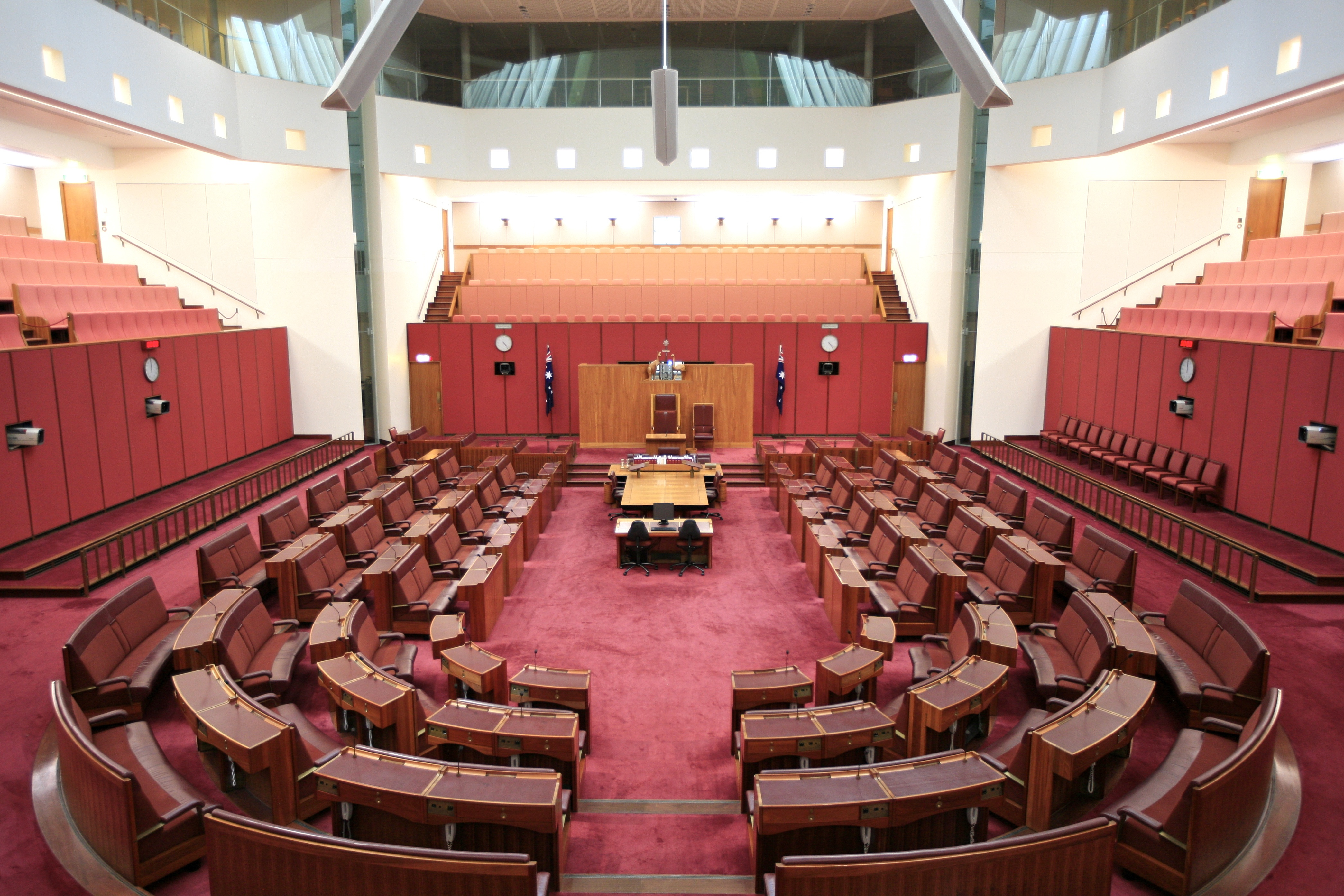 Australian Senate - Canberra